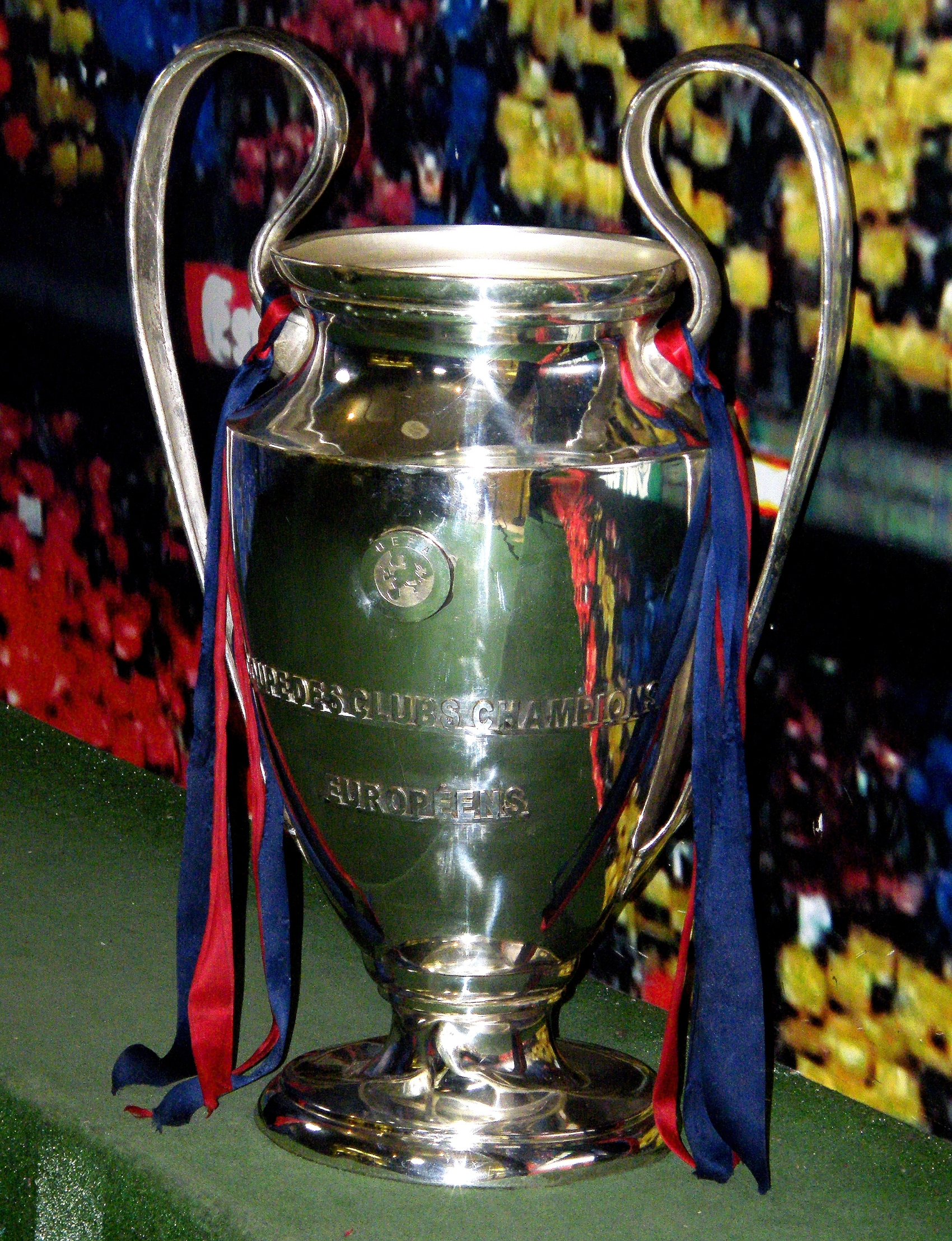 Barcelona's 2006 Champions League Trophy